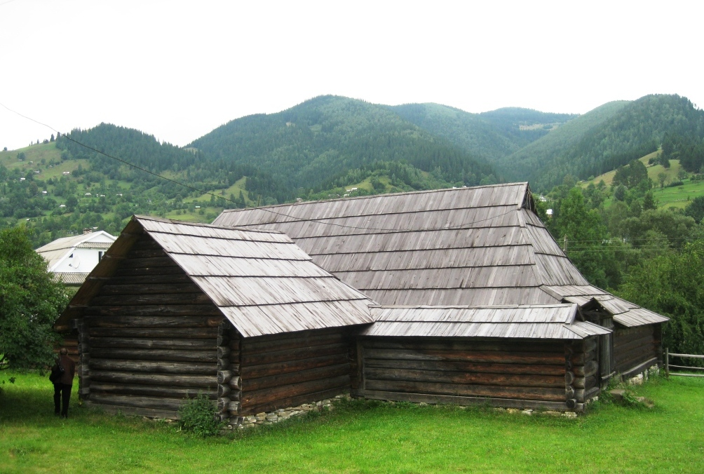 A Ukrainian hutzul wooden building in Kryvorivnia. This was used as the setting for the film "Shadows of Forgotten Ancestors".